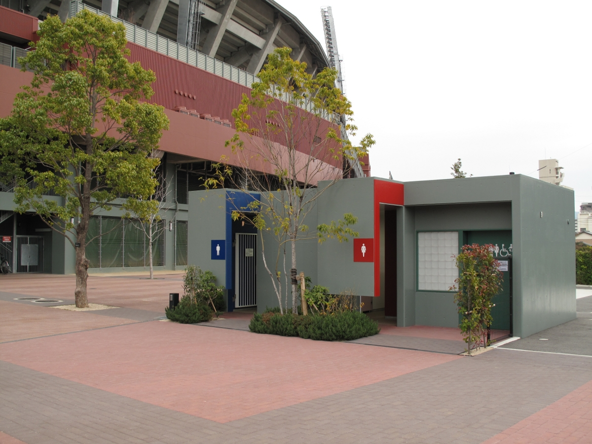 Rest room outside the room set up by demand from fan in year second in Mazda Zoom-Zoom stadium